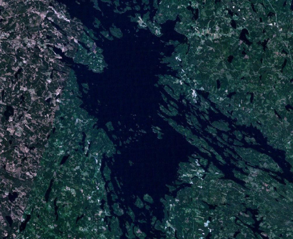 Lake Suvasvesi, Finland. Landsat 7 satellite image.